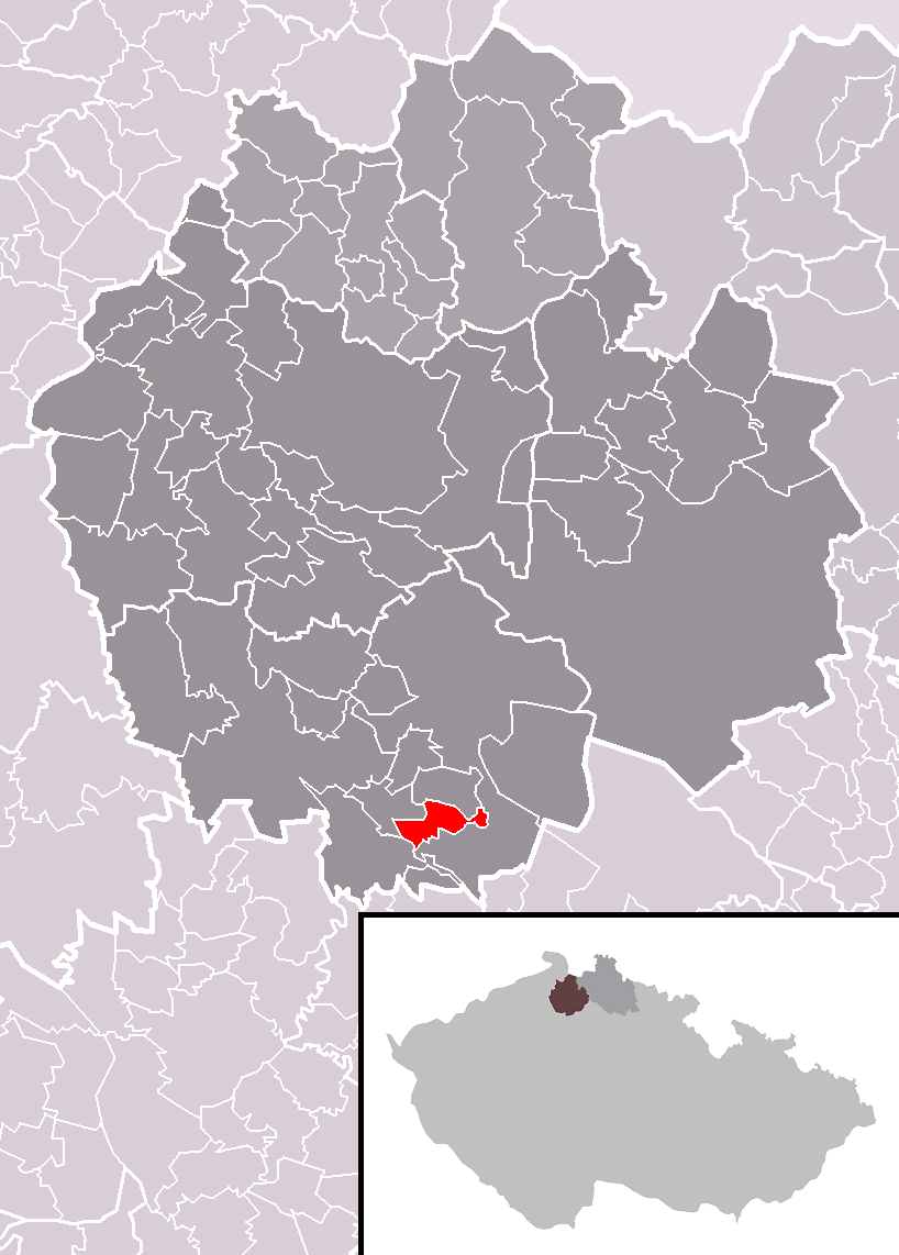 Location of Luka municipality within Česká Lípa District and administrative area of Česká Lípa as a Municipality with Extended Competence.